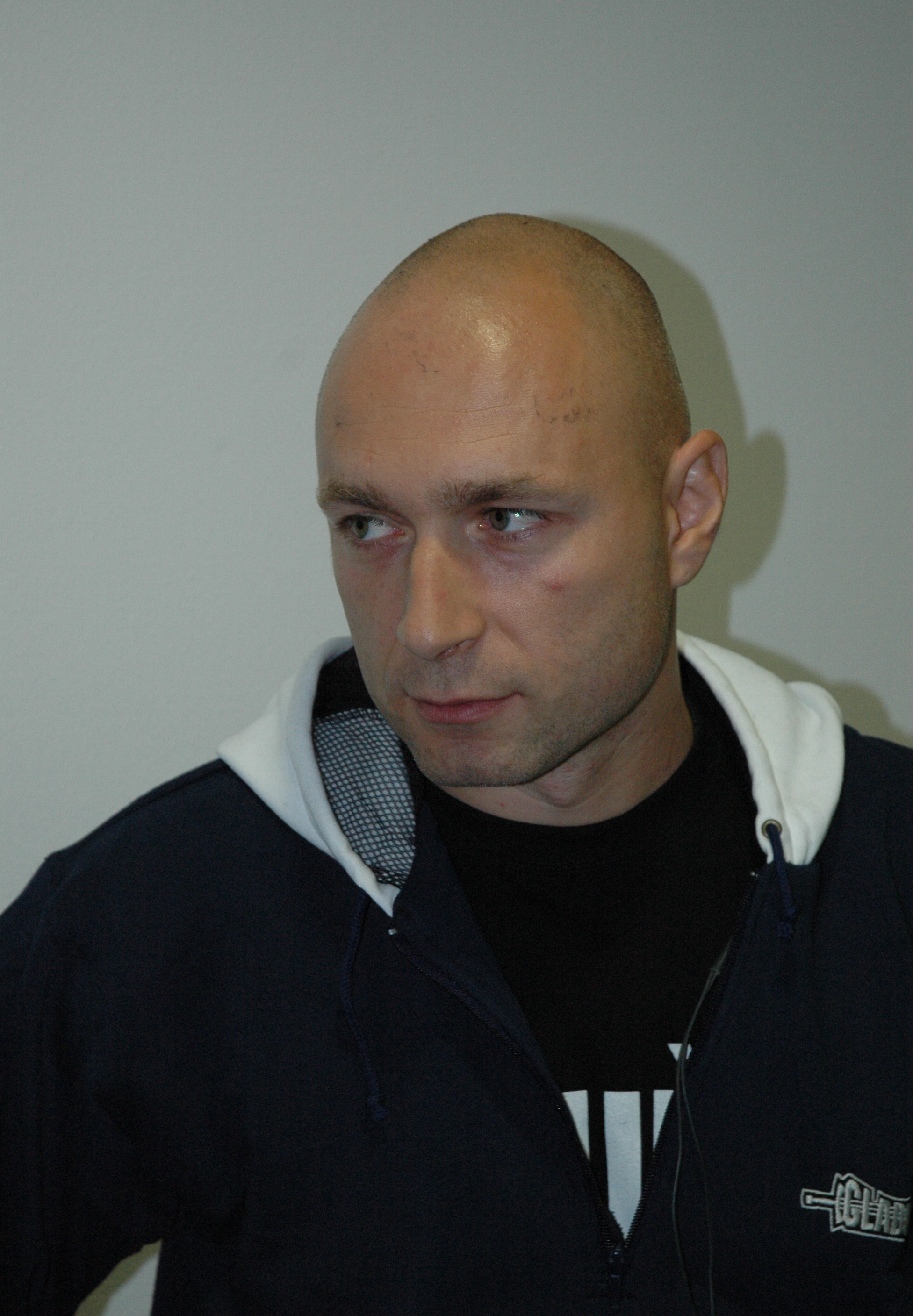 Czech singer Daniel Landa - 3rd November 2004